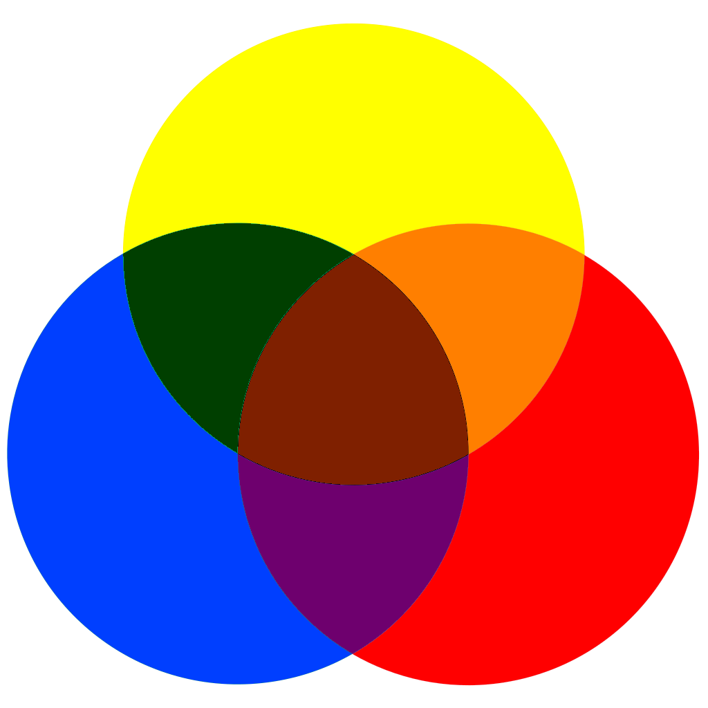 Red + Yellow = Orange Yellow + Blue = Green Blue + Red = Violet Red + Yellow + Blue = Brown